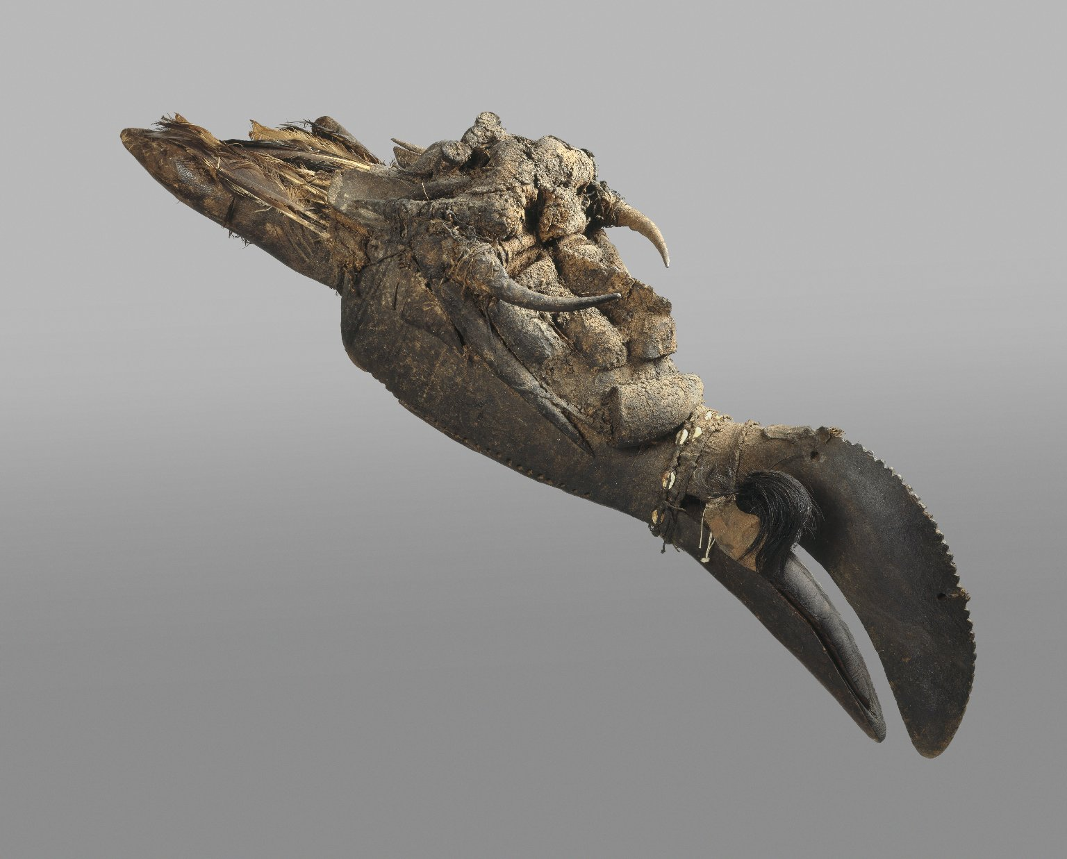 Mask (composite-bird, animal, human). It has a large curved bird-like beak for a mouth that is open. Inserted into the back of the mouth is a medicine bundle with hair protruding on right side. Across the top rear of the mouth, cowrie shells have been embedded in a band and a horn. The eyes are slit-shaped and void; the nose is visible but heavily encrusted with various types of material. Two horns extend on either side of the forehead.The forehead is heavily encrusted with various types of substances including mud, string horns, nails and what appears to be three shotgun shell casings. At the top are two ears, two wooden horns, and a large cluster of brown feathers. Condition: All of the added parts and various substances are loose. Parts of the heavily encrusted sections of the forehead are breaking away. This piece was examined by Conservation shortly after arrival.